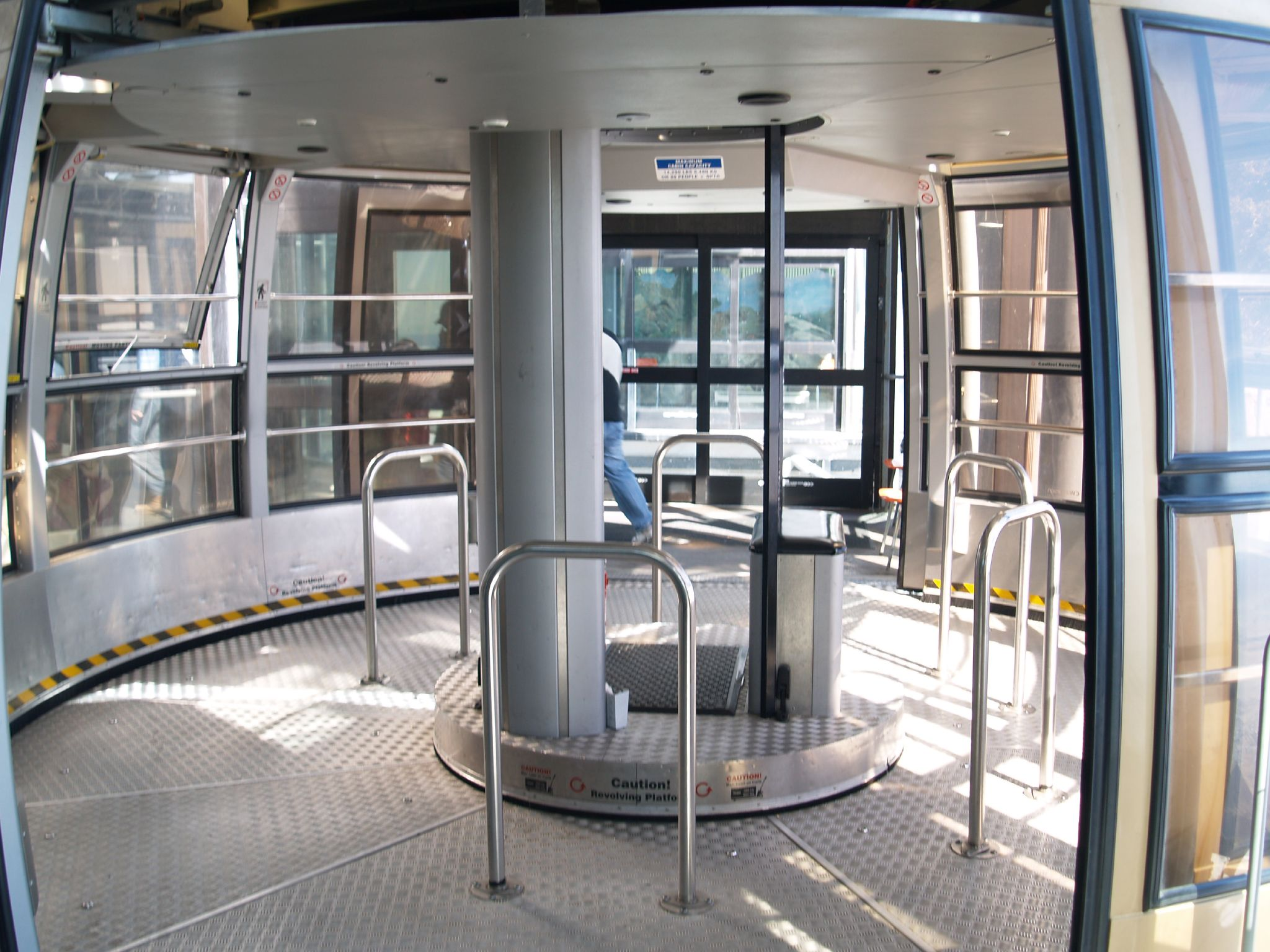 Interior of an empty tram car with revolving floor at the Palm Springs Aerial Tramway